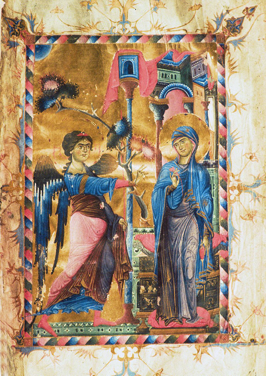 "Annunciation", an Armenian illumination from the Gospel (1287, Matenadaran, Ms. 197).